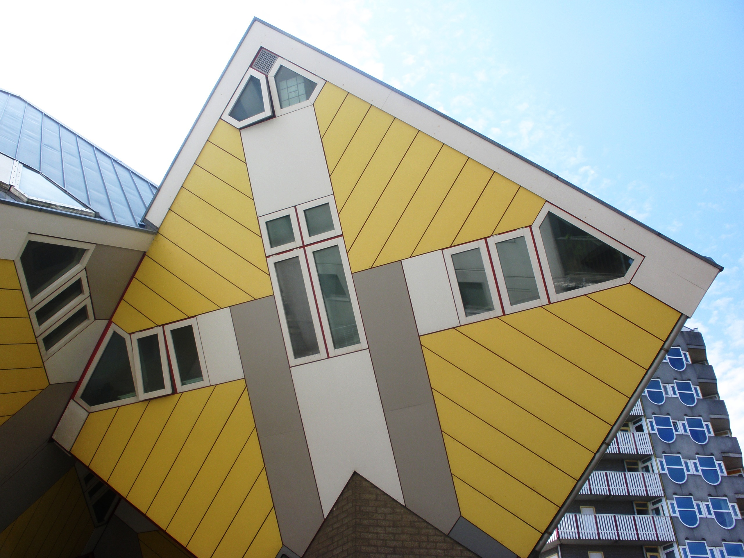 Cube house (Kubuswoningen) in Rotterdam